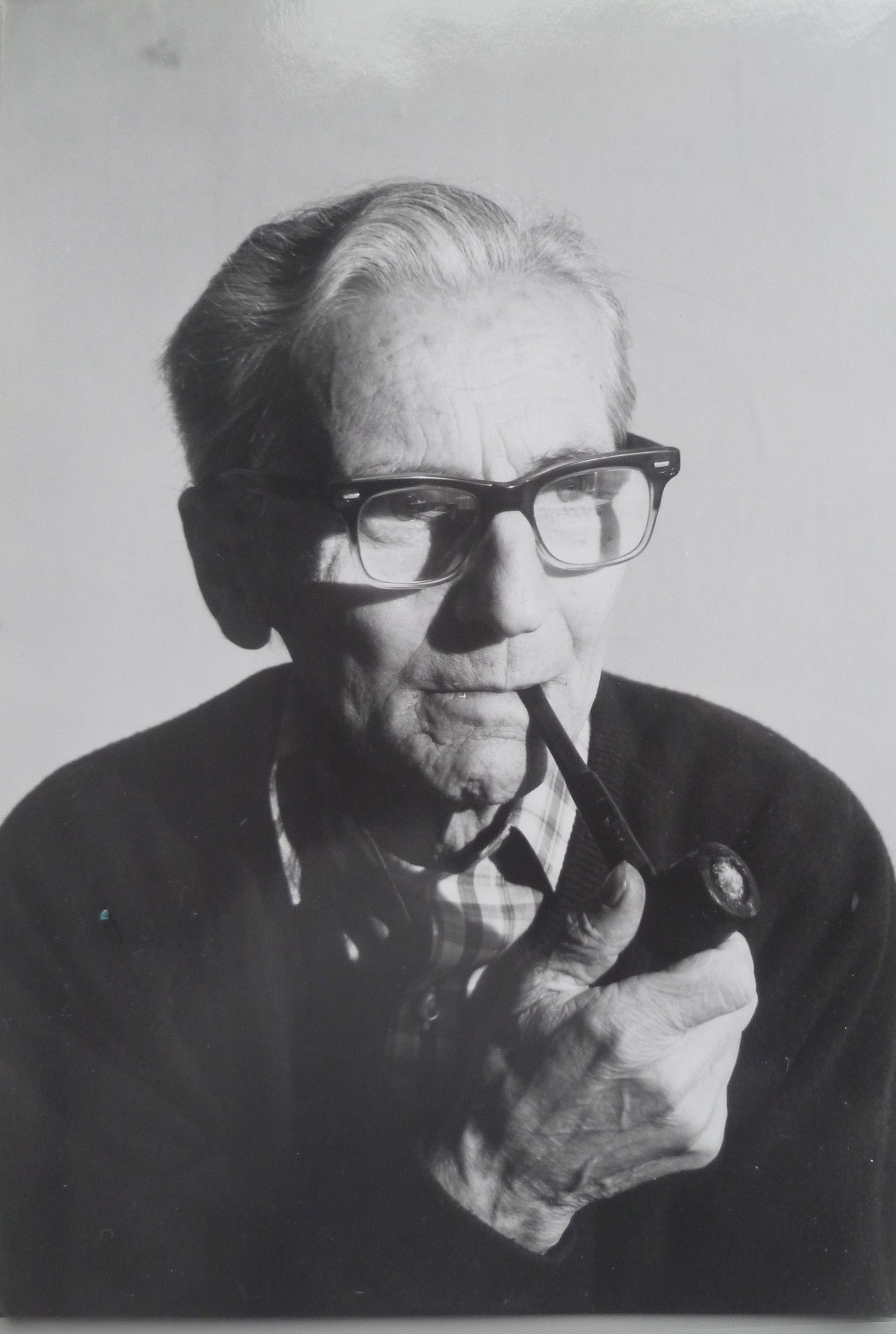 Photo of the Belgian painter Gustaaf Sorel (1905-1981)